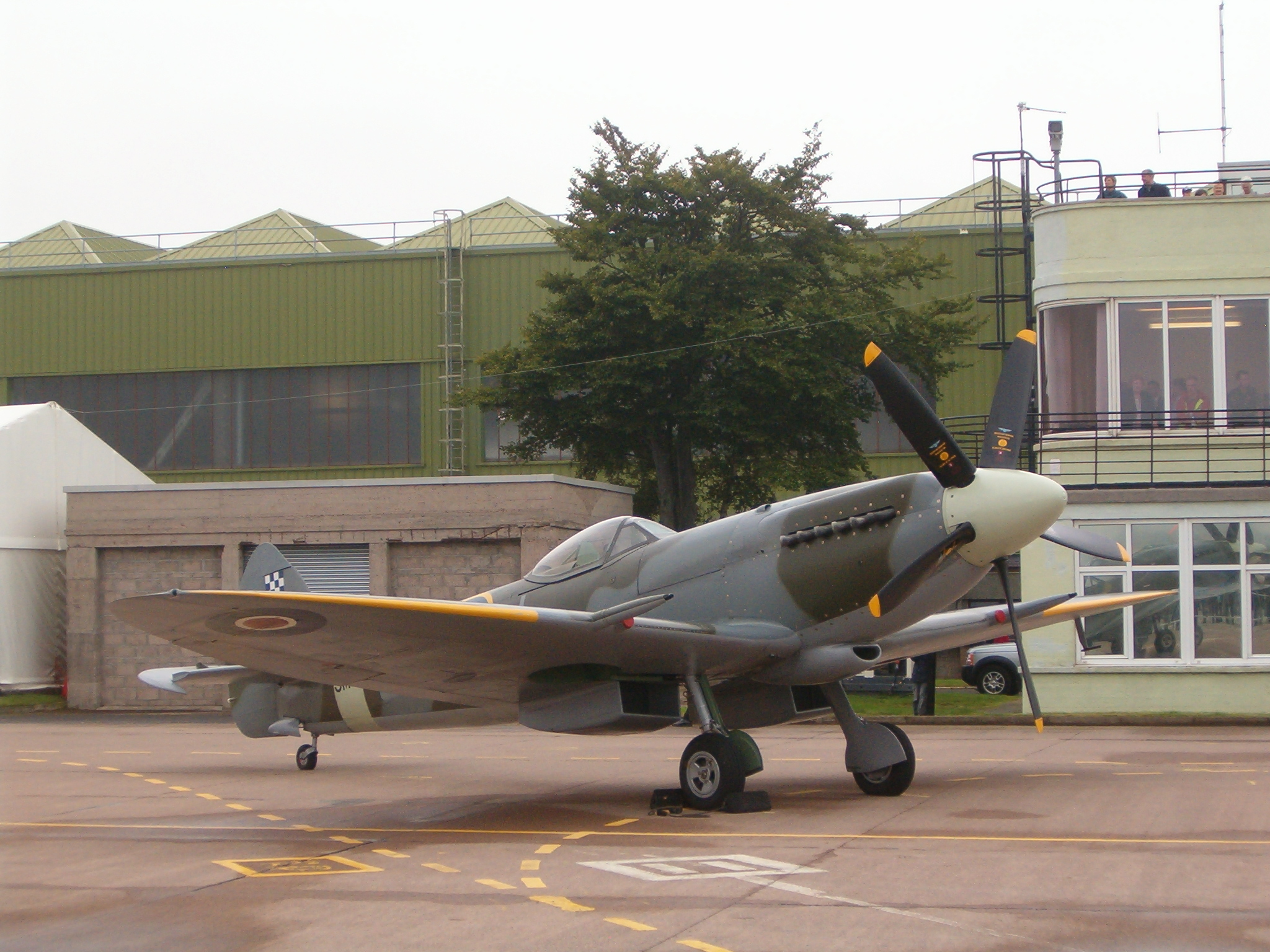 Supermarine Spitfire FR Mk.XVIIIe SM845 (civil registration G-BUOS)[1] at the RAF Leuchars Airshow in 2008.